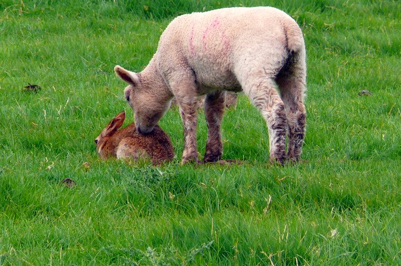 A lamb investigates a rabbit in a Perthshire field.